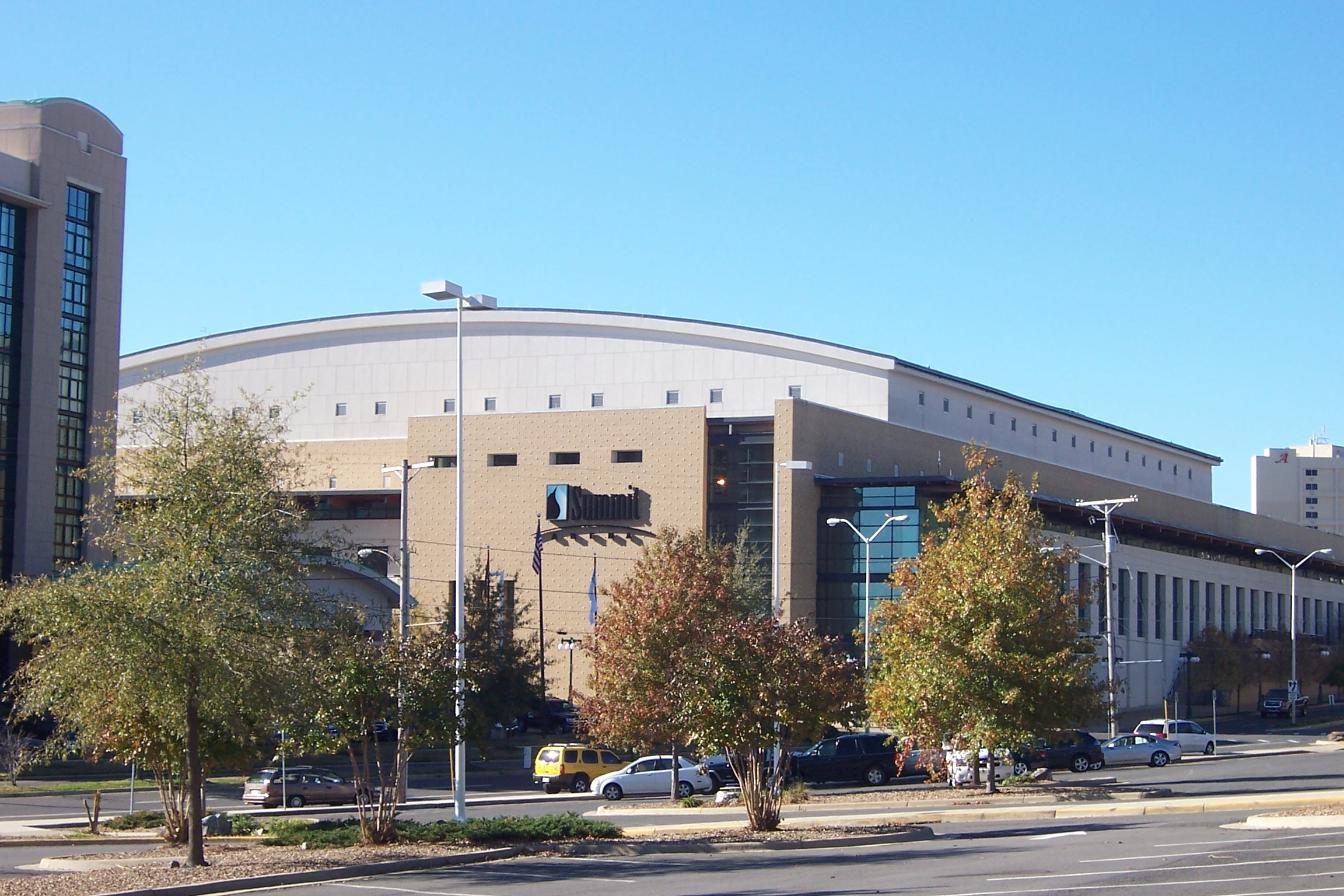 Summit Arena and Hot Springs Convention Center complex, Hot Springs, Arkansas